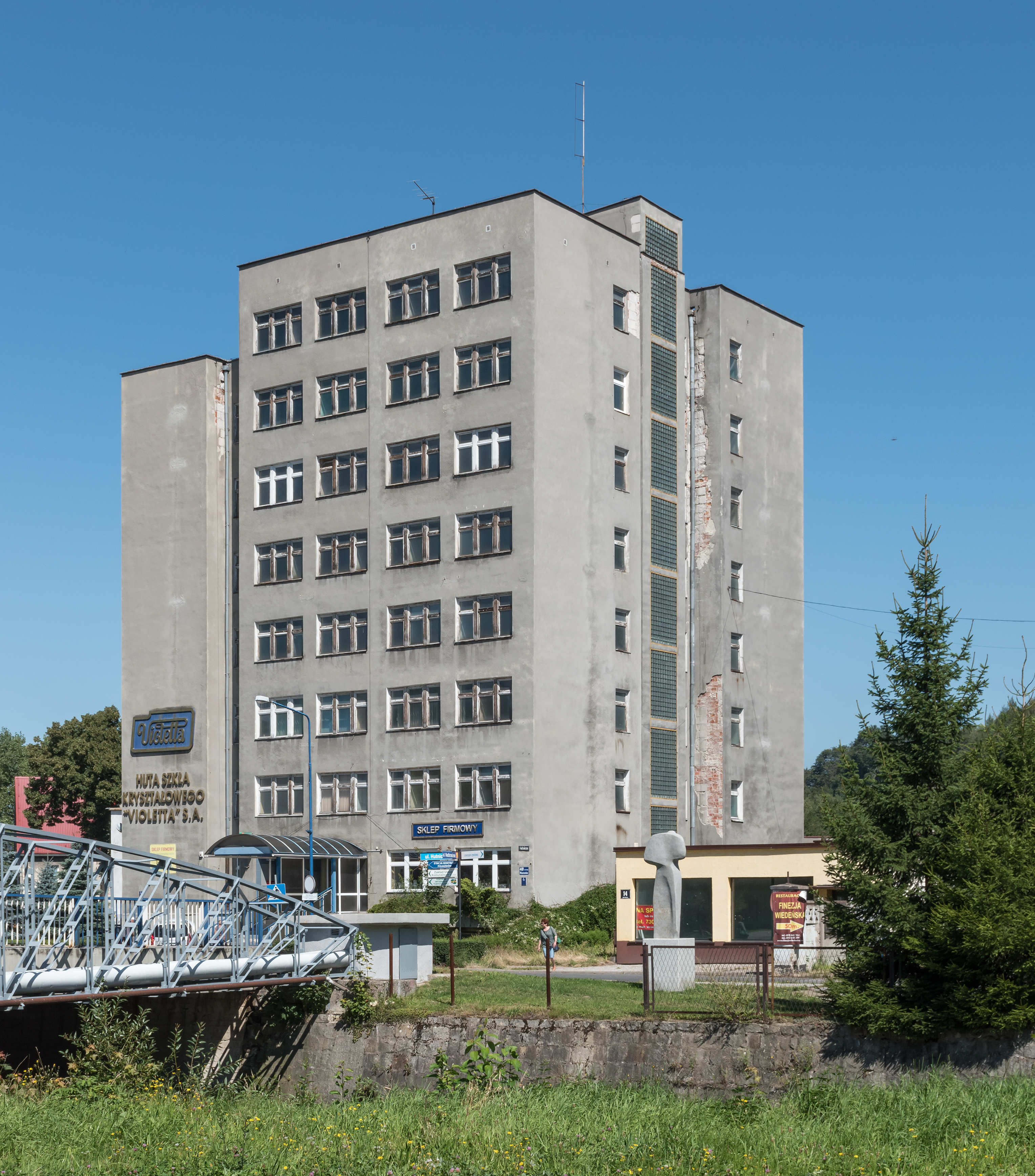 Office building of glassworks in Stronie Śląskie